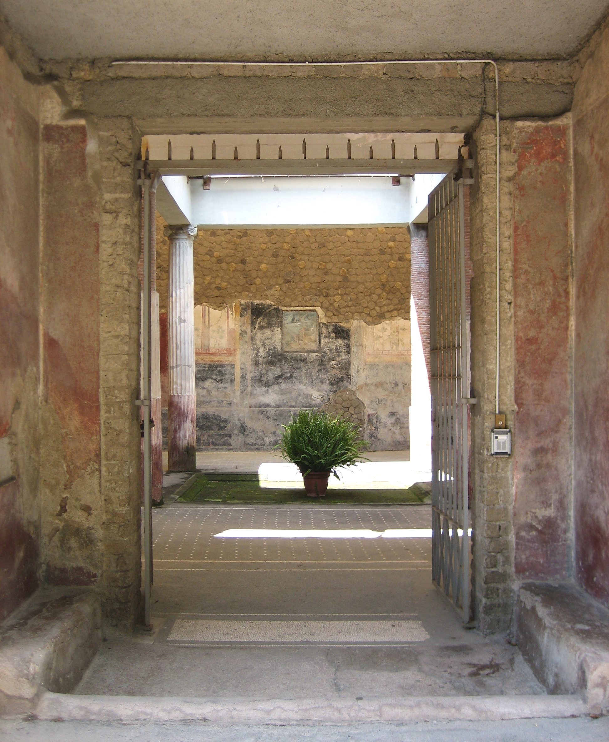 Entrance of the Villa San Marco at the ancient Stabiae, the modern Castellammare di Stabia in Campania, Italy. The atrium with frescos on the northern wall in the background.